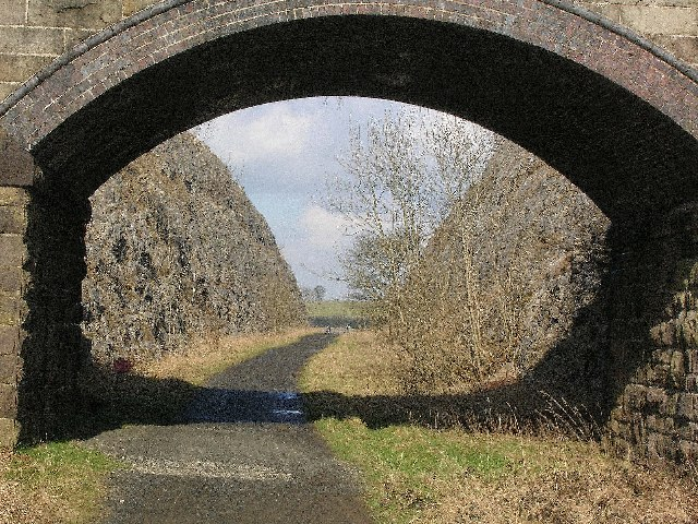 Coldeaton Cutting on the Tissington Trail near to Heathcote, Derbyshire